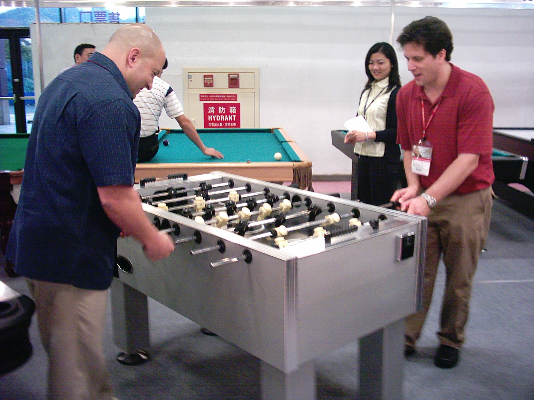 TaiSPO exhibitors can help buyers to choose their own like products, in the picture is the mini soccer table popular in Europe.